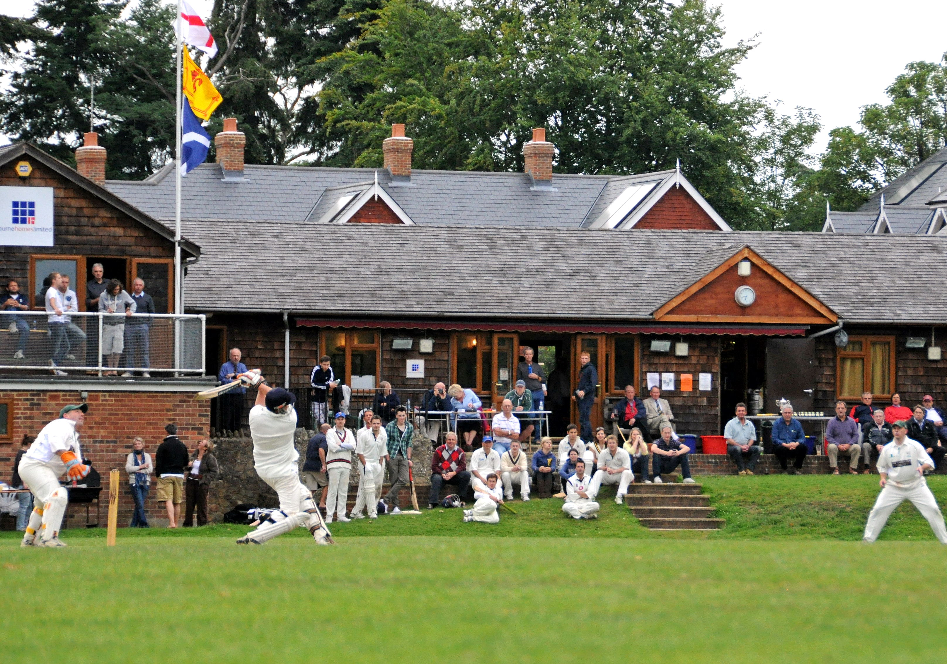 An I Anson Steven's cup final played on the village ground.